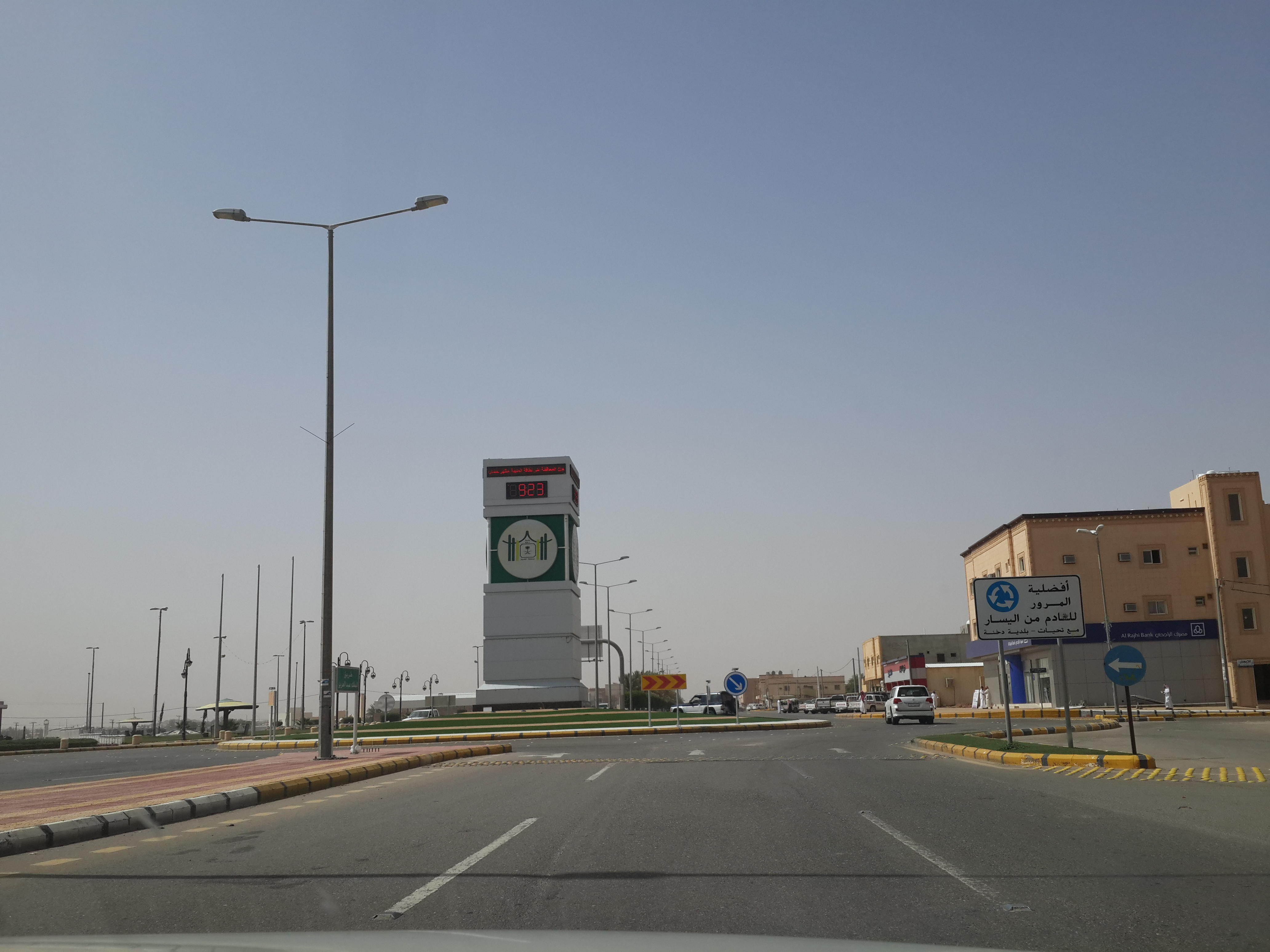 Clock tower in downtown Duhknah, Saudi Arabia